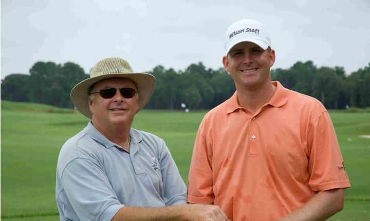 A picture of the golfers Don Trahan (left) and his son, DJ Trahan (right)